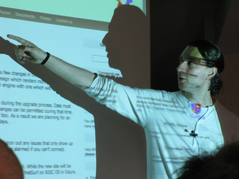 Wakefield RISC OS Show 2011